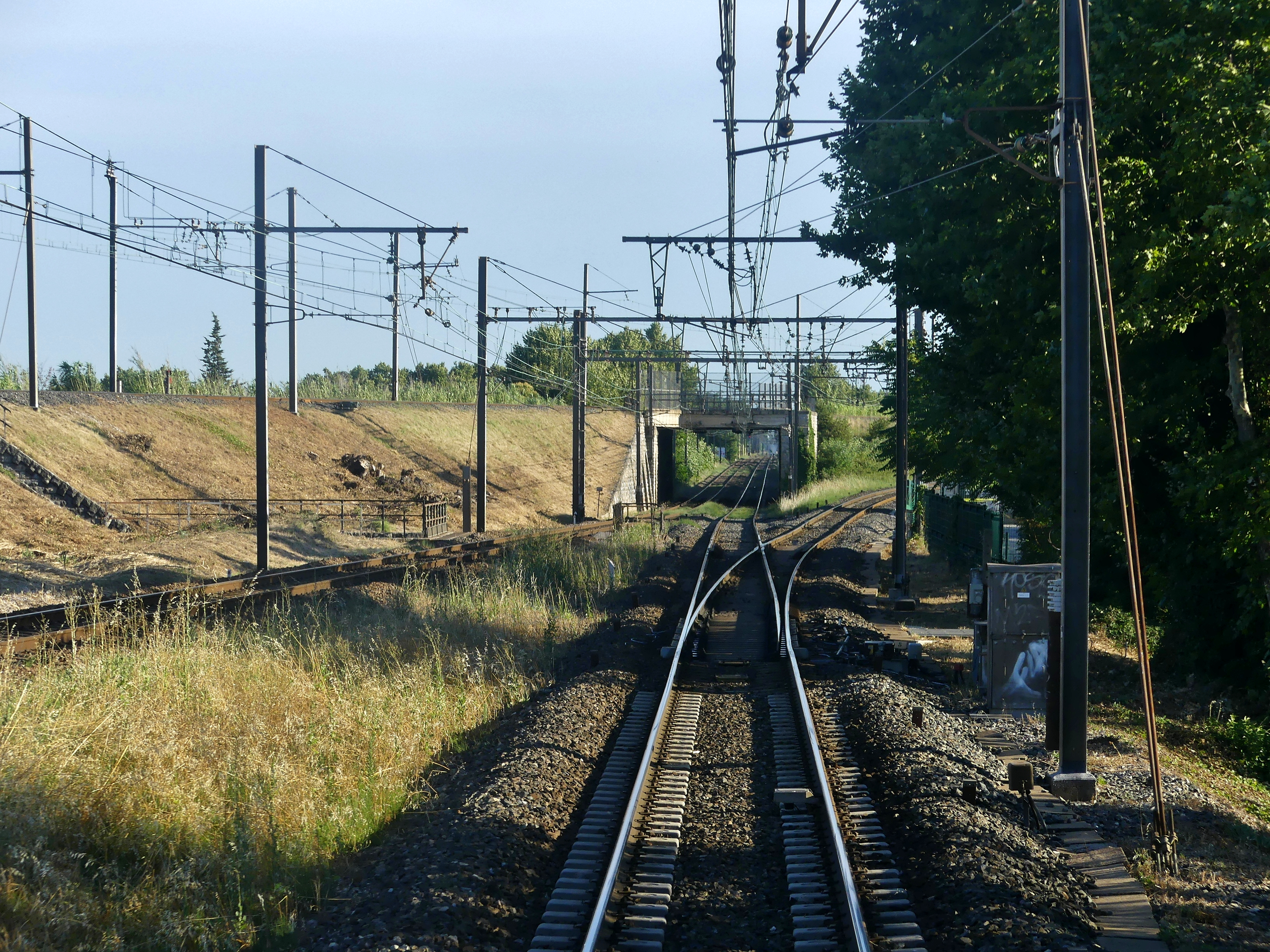 Sight of the bifurcation between two railway lines : Paris to Marseille adhead under the bridge and the line to Montpellier and Spain on the bridge and on the right, in Tarascon, Bouches-du-Rhône, France.